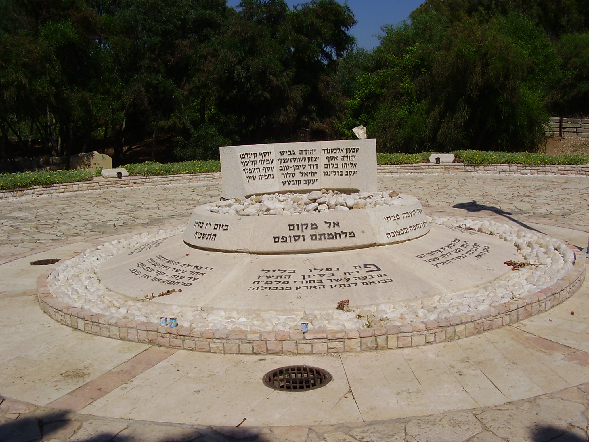 Achzib Bridge Memorial, Achzib, Israel.